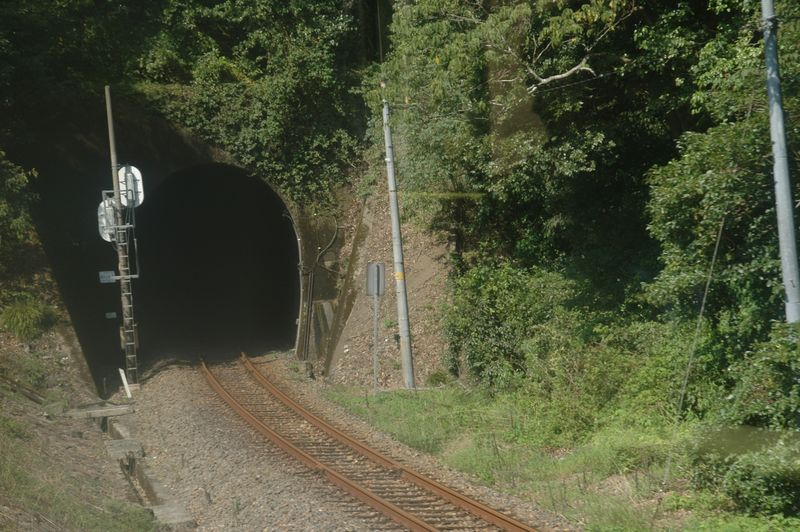 Kawaoku Signal Base